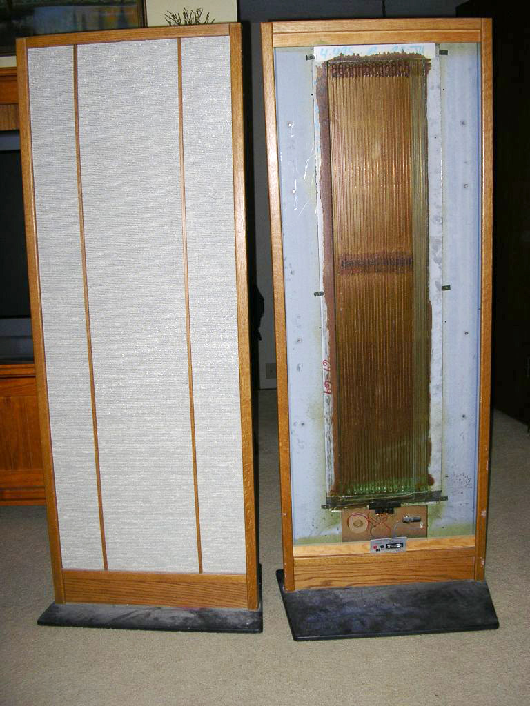 A pair of late 1970's Magnepan MG-1 speakers. The speaker on the right has had its cover removed, revealing the planar drivers. This is a sheet of Mylar with a larger region of heavier gauge wire glued on to form the bass/midrange area and a smaller area of finer wire producing the treble. The Mylar sheet is tensioned a few millimeters above matching rows of permanent magnets so that the whole sheet vibrates like a drum skin when current from an amplifier is passed. The large surface area means the sheet is well damped by the air it moves. Being very light the sheet can stop and start noticeably quickly. This characteristic combined with the lack of chesty colouration caused by a speaker box is what makes the addictively realistic Magnepan sound. Later and more expensive models also use a true ribbon tweeter to extend the treble range. These units are renowned for their speed, accuracy and complete lack of "spit and sizzle". There are a couple of minor drawbacks: They are large; approximately the size and shape of a smallish interior door and to produce enough bass room placement is very important due to the motion of the mylar sheet suffering cancellation by reflected sound waves. People who love these speakers but are forced to adopt disadvantageous room positioning may resort to using a high quality sub-woofer. Magnepan remain popular today and provide a true high end sound at a reasonable price. Current models are listed at Magnepan's site: Magnepan